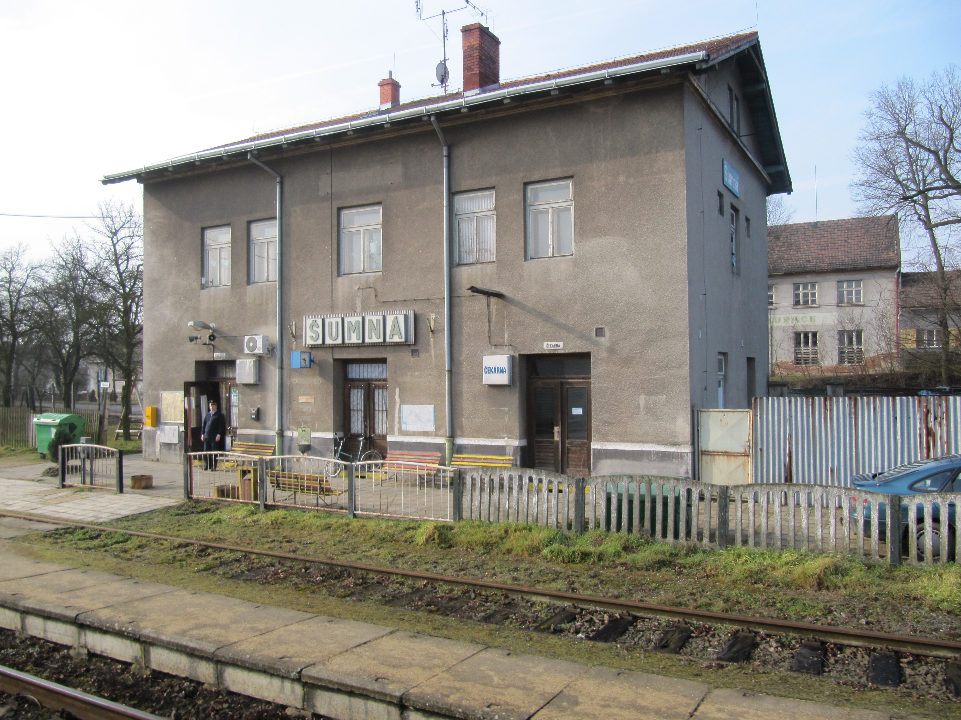 Šumná, Znojmo District, Czech Republic. Railway station.